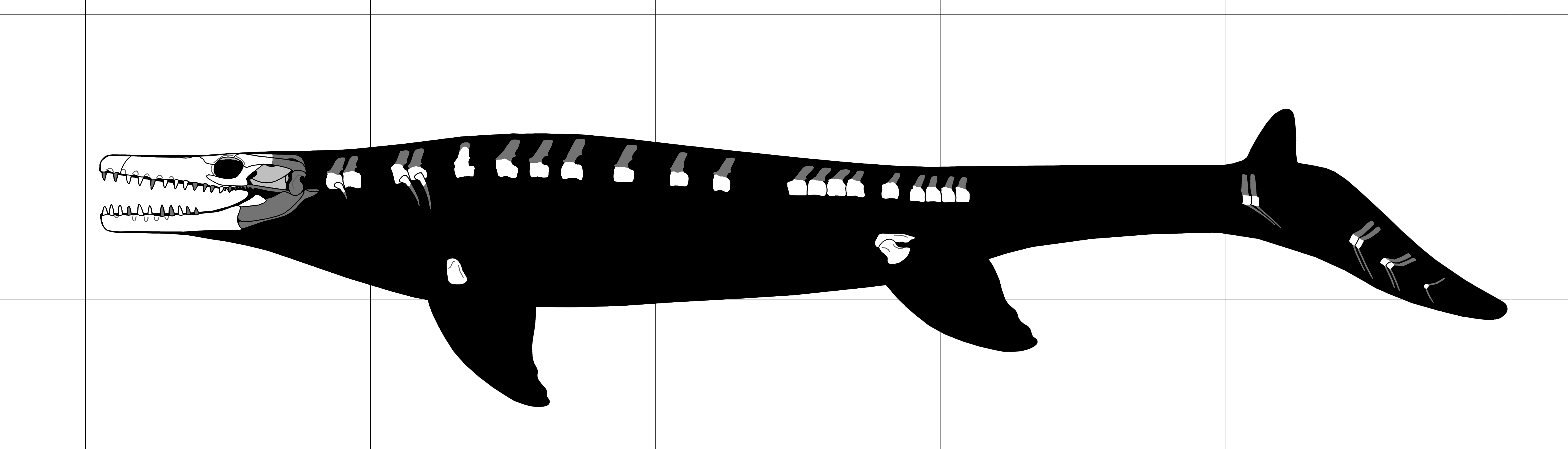 Skeletal diagram of Goronyosaurus nigeriensis based on the holotype and referred cranial remains.